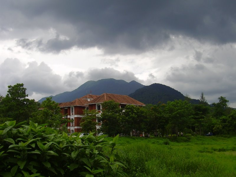 University College Of Engineering, Thodupuzha - an evening view